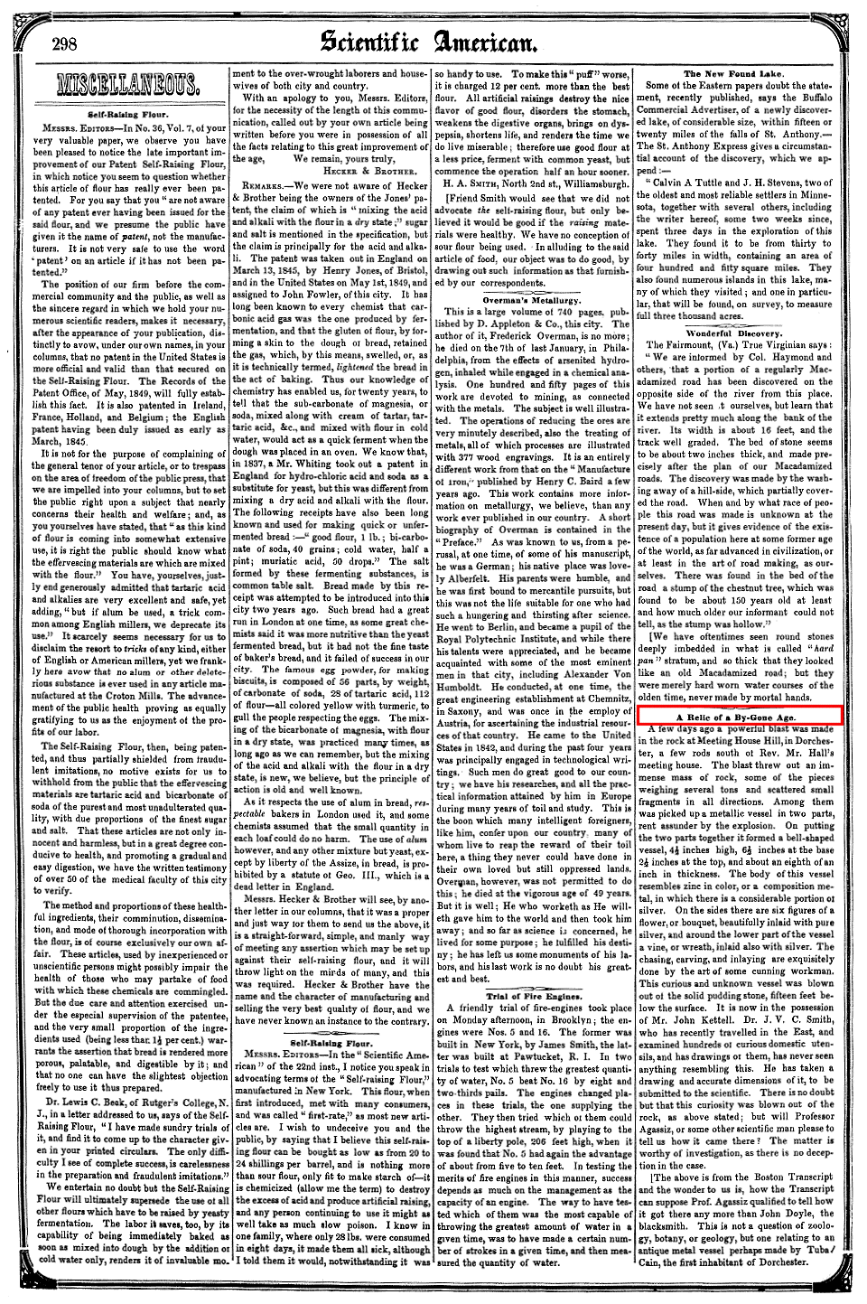 A page from Scientific American circa 1852